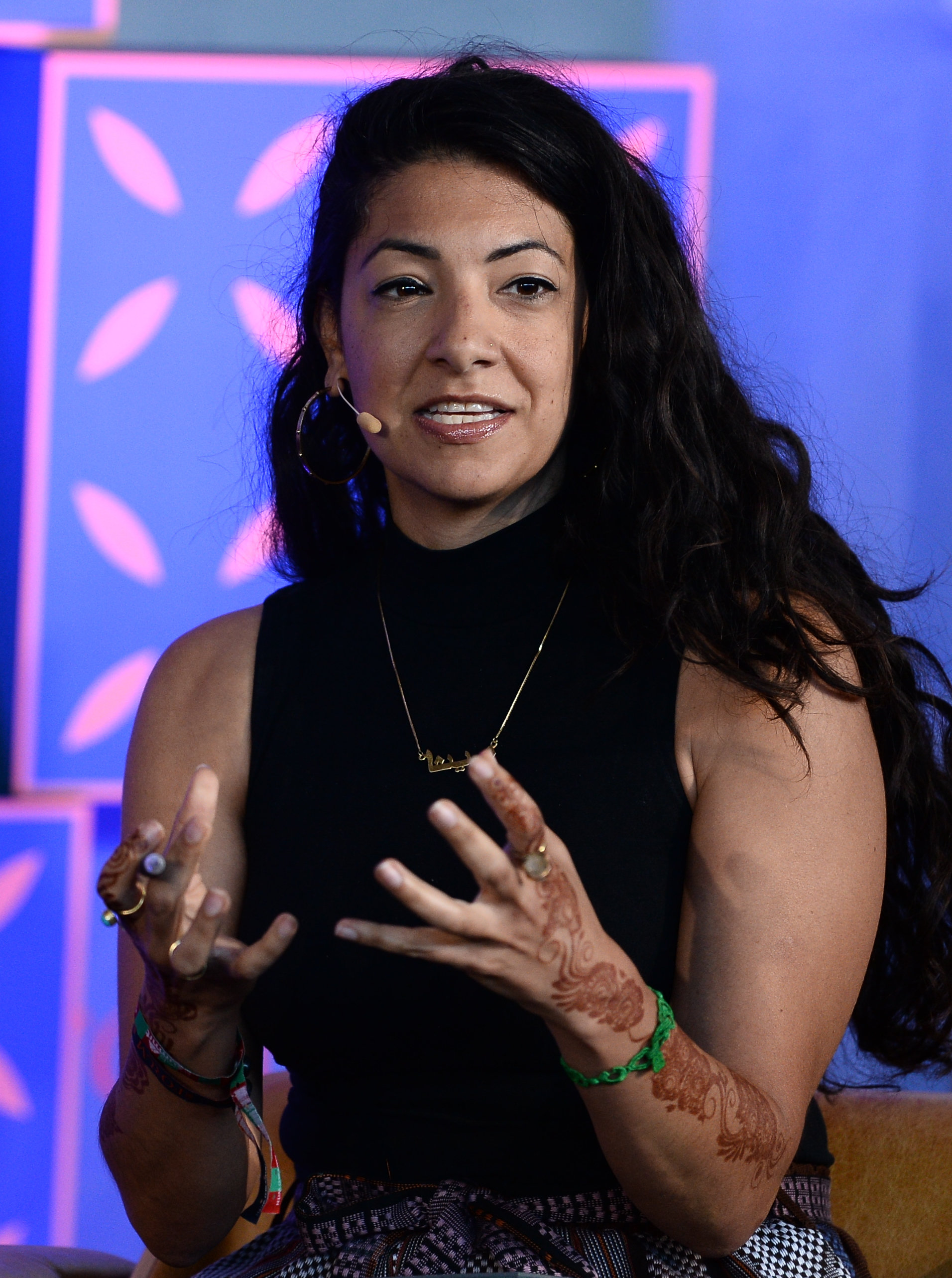 8 November 2017; Maytha Alhassen, Senior Fellow, Pop Culture Collaborative & Guest Co-host, Al Jazeera English, Remember to Breathe, on Forum Stage during day two of Web Summit 2017 at Altice Arena in Lisbon. Photo by Diarmuid Greene/Web Summit via Sportsfile